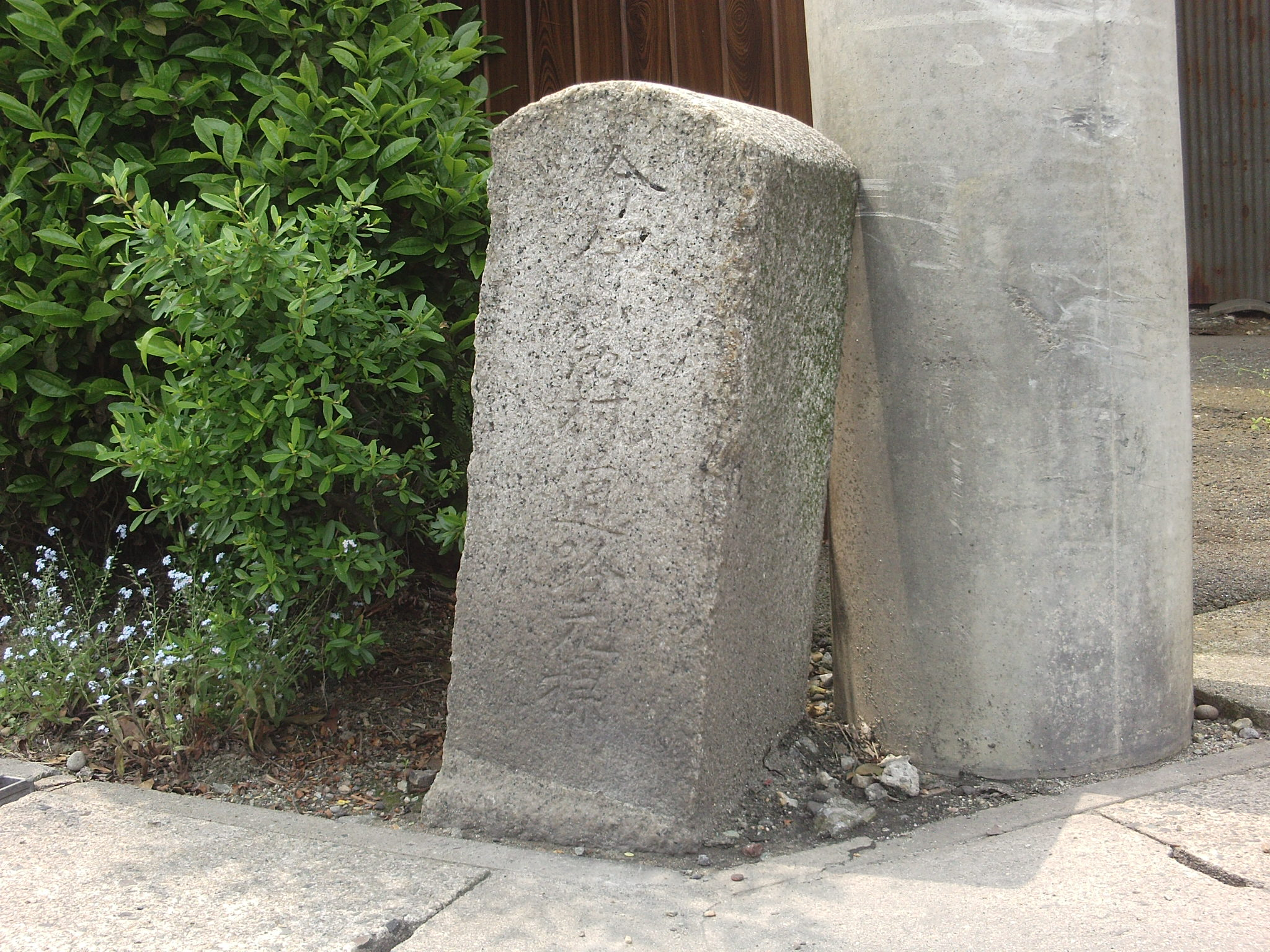 Kilometre zero of Imaise village. (Imaise village, Nakashima-gun, Aichi.)